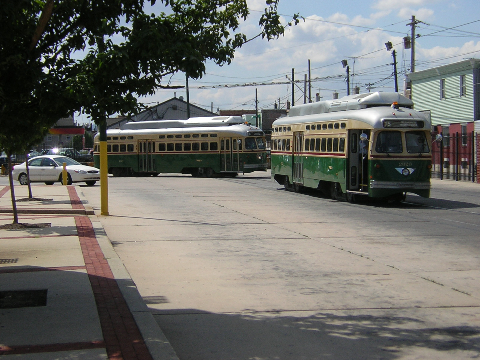 SEPTA PCC II